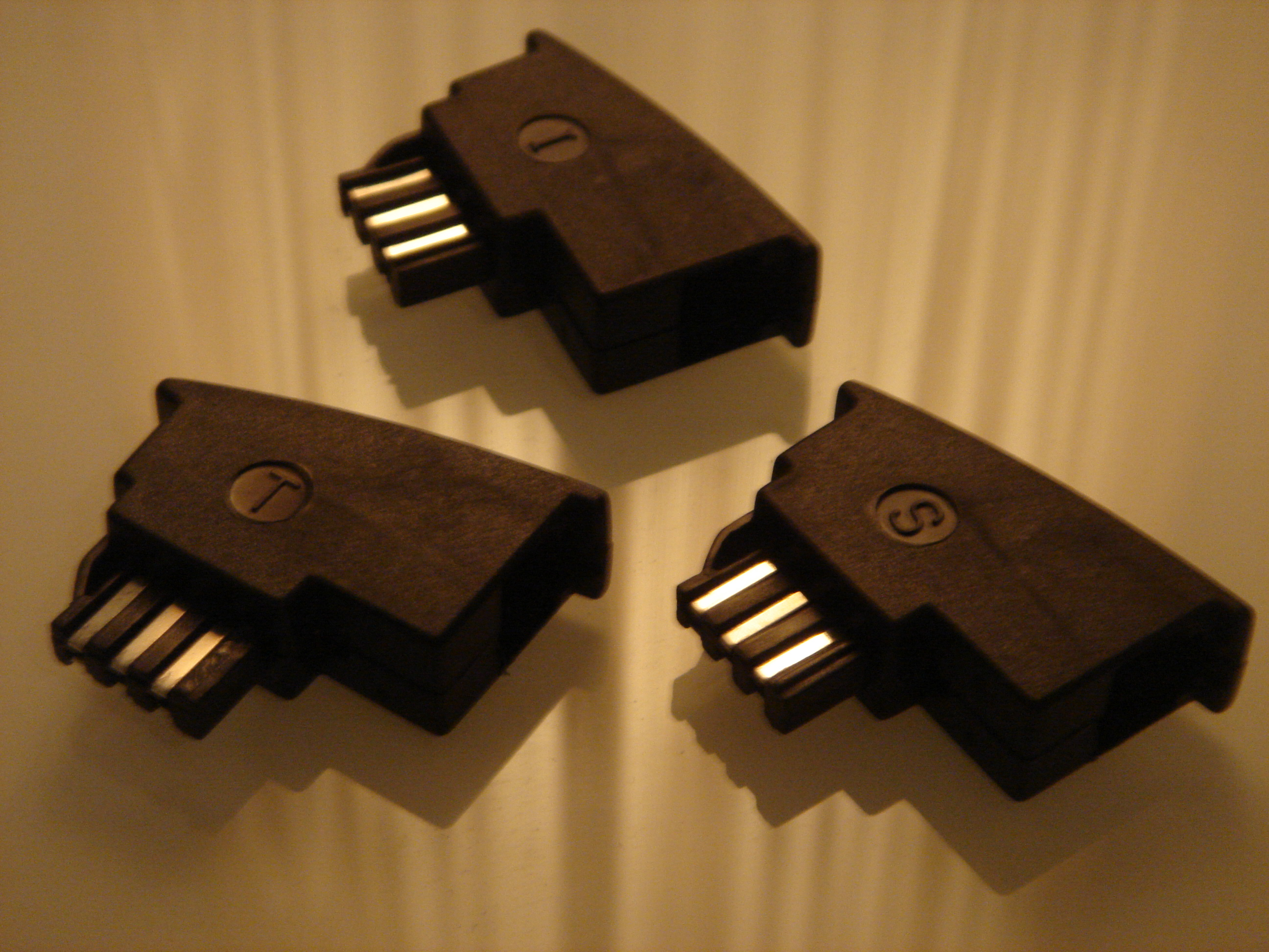 Three TAE connector with Registered jack Cable for the three German typical types: S = Siemens, T = Telekom and I = International.